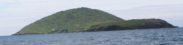 Deenish Island off Derrynane Taken from a yacht tracking 1nm along the north shore. Note the single houseto left of centre